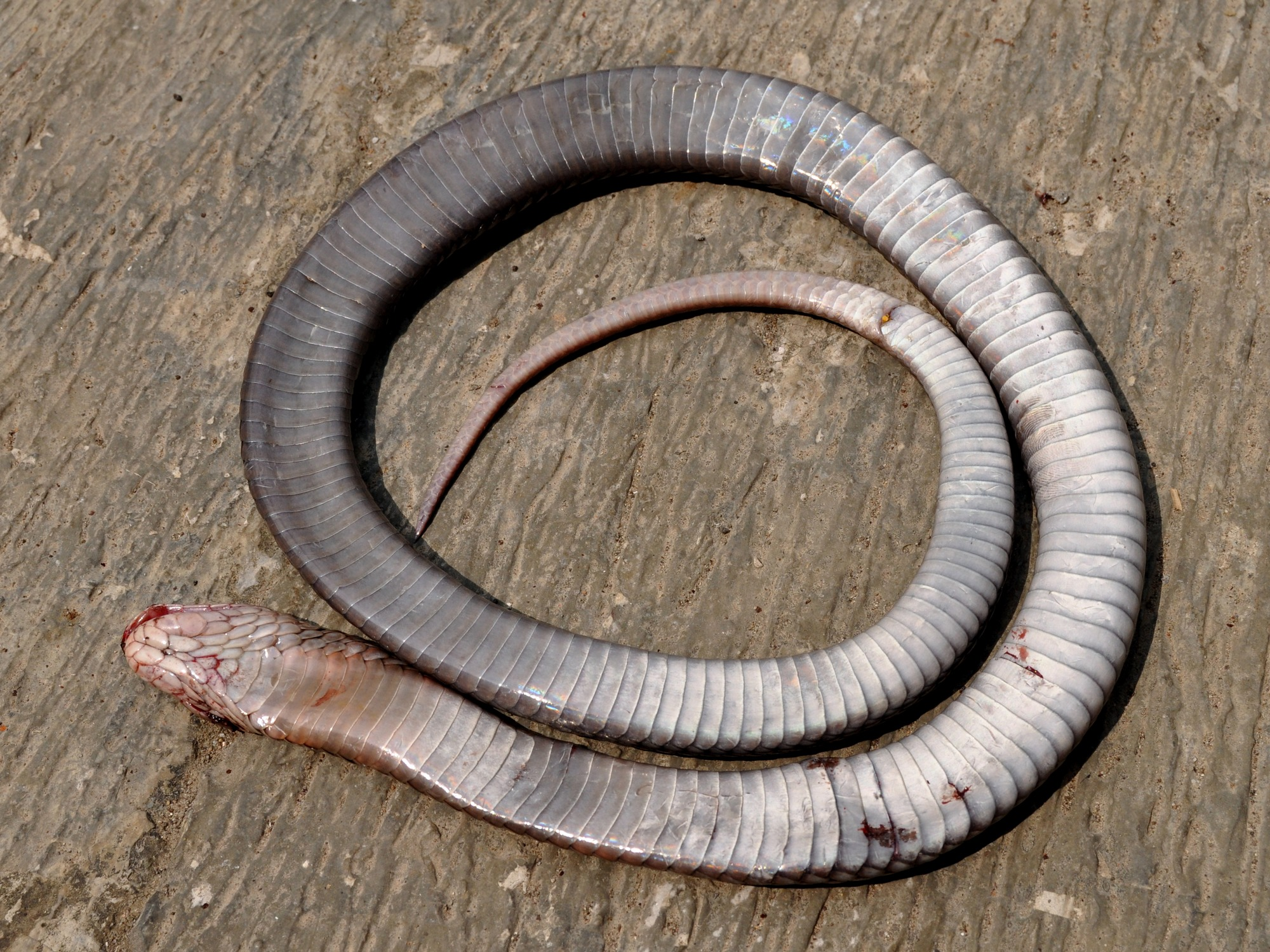 A killed juvenile Javan spitting cobra, Naja sputatrix (TL ca 50 cm); ventral view. From Banyumas, Central Java, Indonesia.